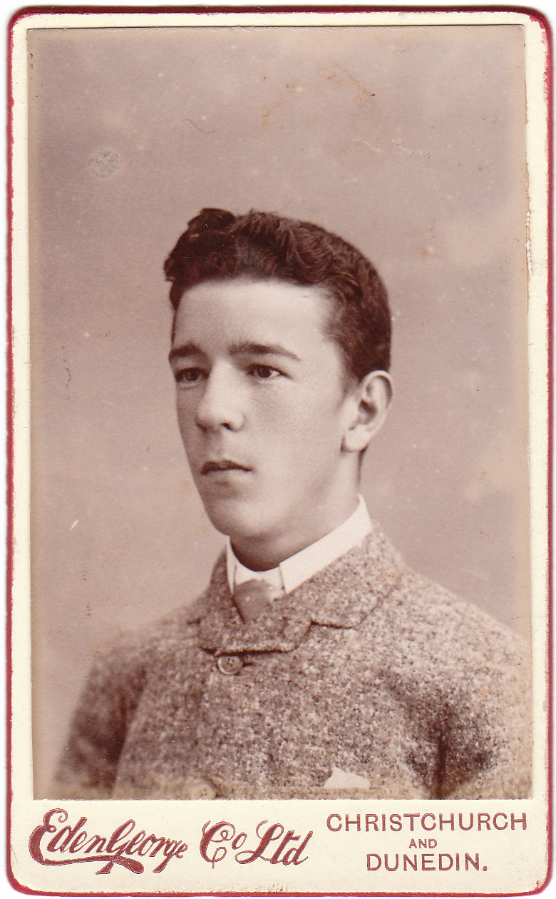 Carte de visite of an unidentified young man produced by Eden George Co Ltd.